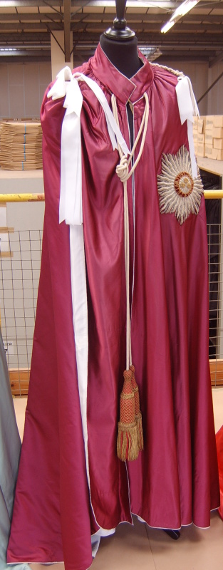 Mantle of the Most Honourable Order of the Bath